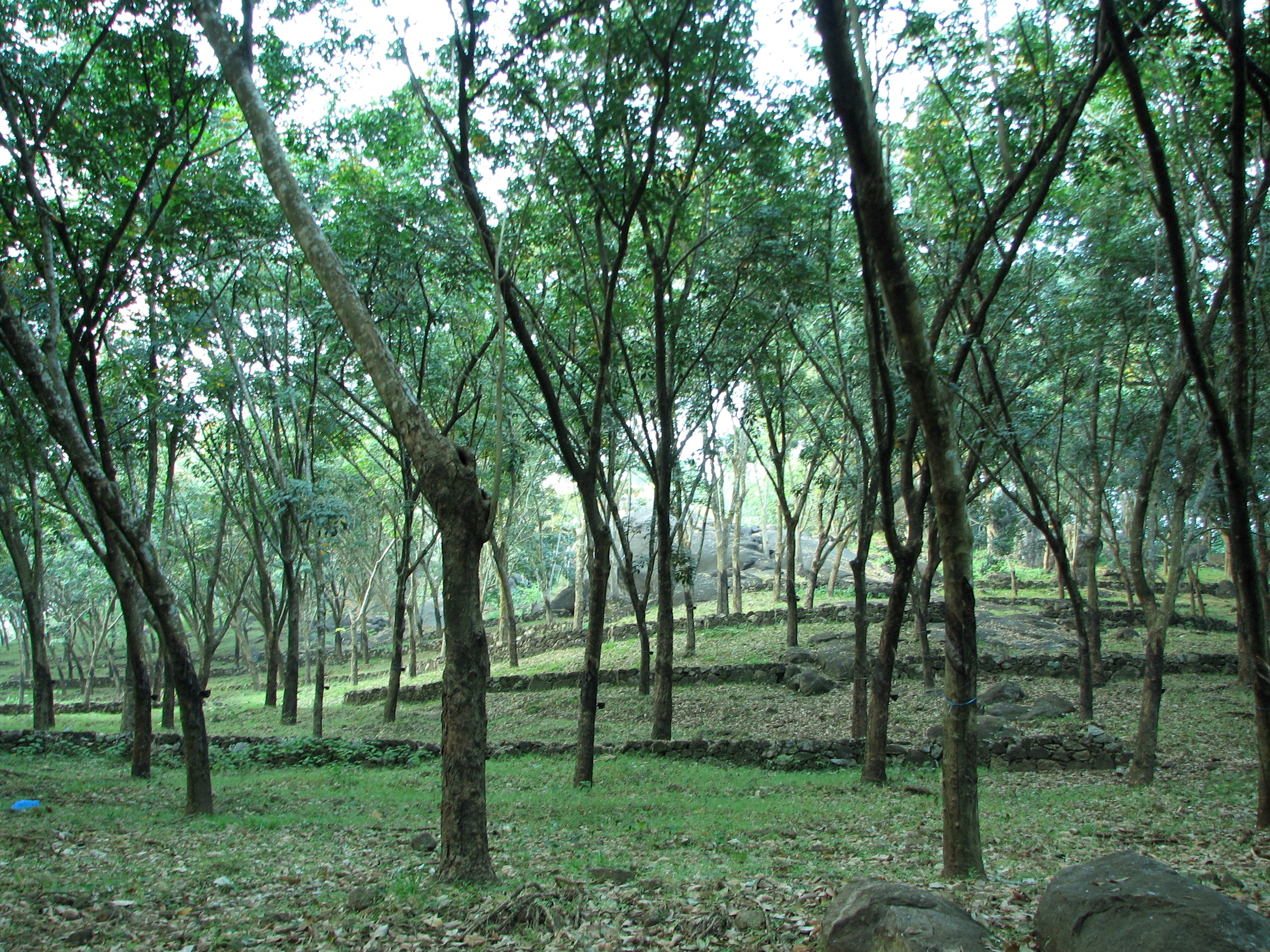 self-made Image ; Author's Name : Infocaster